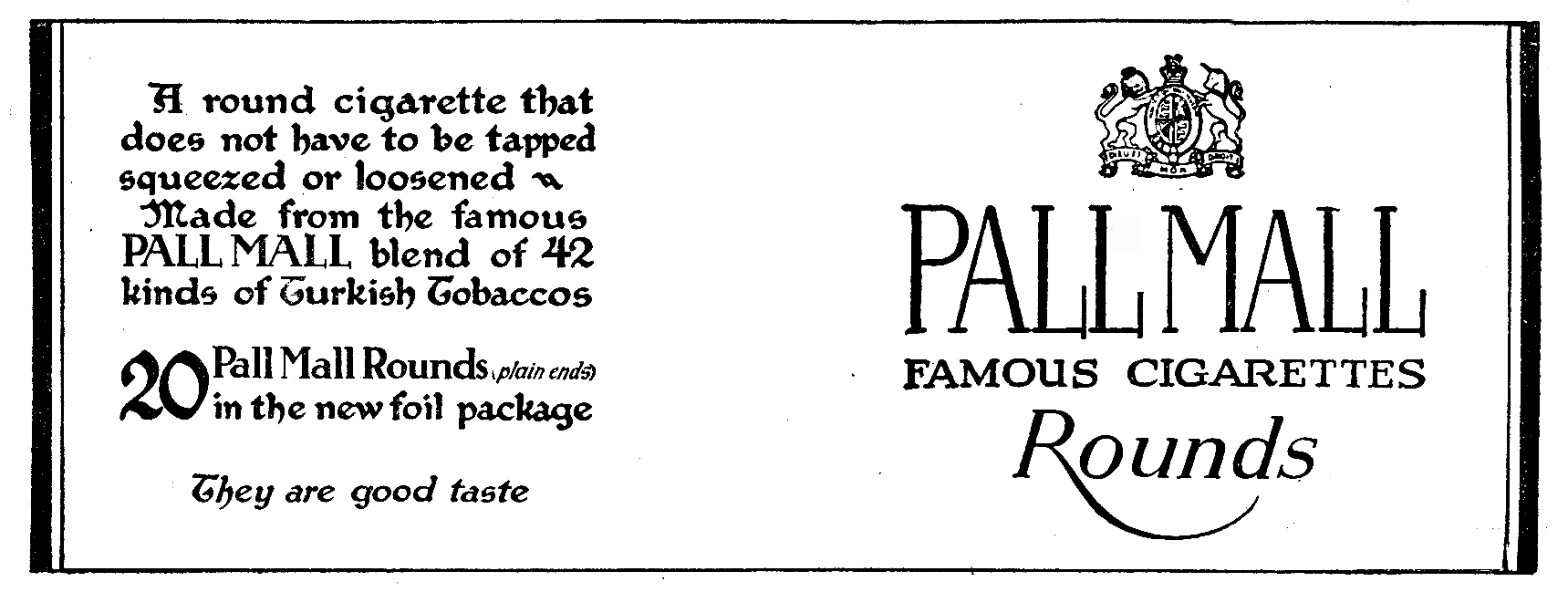 PALL MALL display advertisement with logo